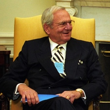 Cropped from file:President Bill Clinton meets with Lee Iacocca in 1993.jpg. Chrysler CEO Lee Iacocca met with President Bill Clinton at the Oval Office on September 23, 1993.